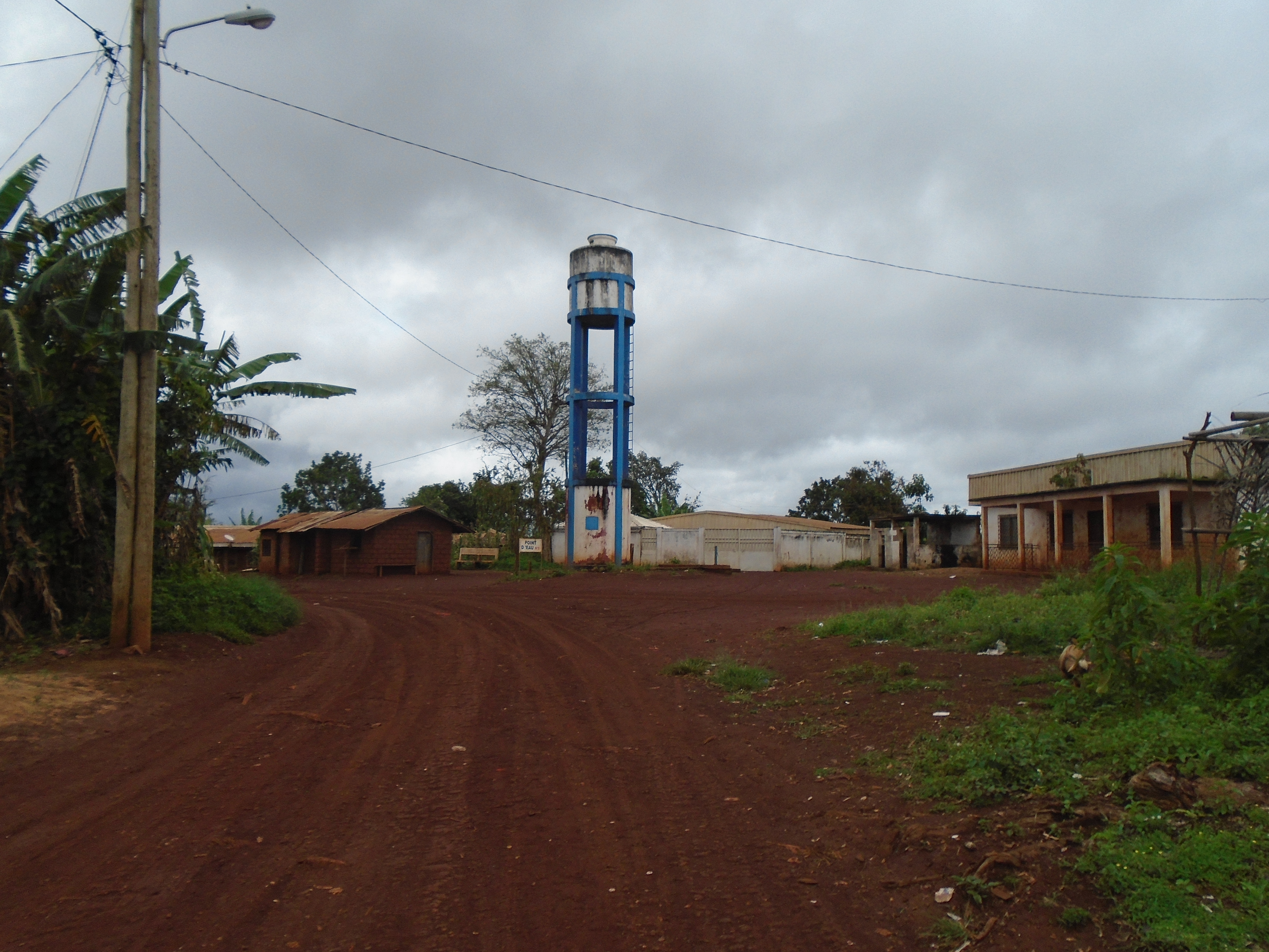 Bandrefam-The Water Tank , one of the most important infrastructure in the village